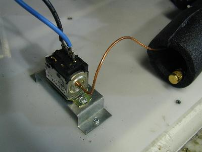 A typical mechanical freeze stat.